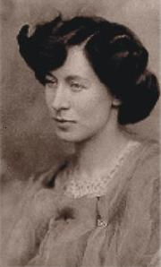 Olive Eleanor Custance (February 7, 1874 – February 12, 1944) was a British poet.